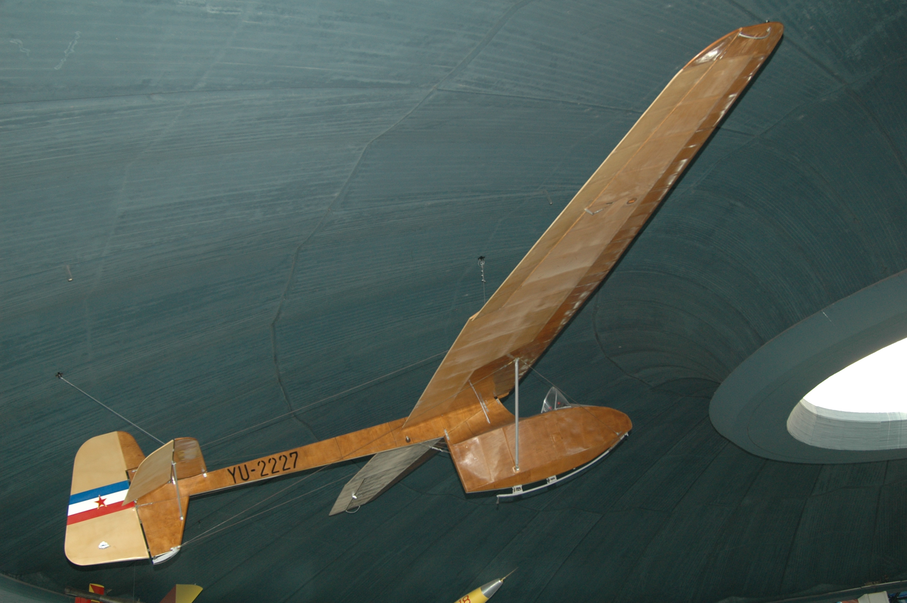 Utva Cavka